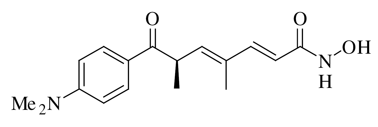 Structural diagram of histone deacetylase inhibitor Trichostatin-A